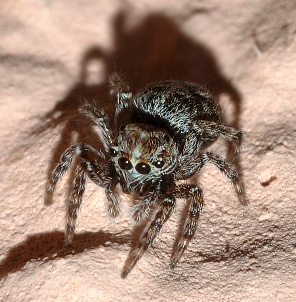 This image shows a 3.3 mm x 1.6 mm (0.13 x 0.07 inch) small female jumping spider of the species Sitticus pubescens from the front.